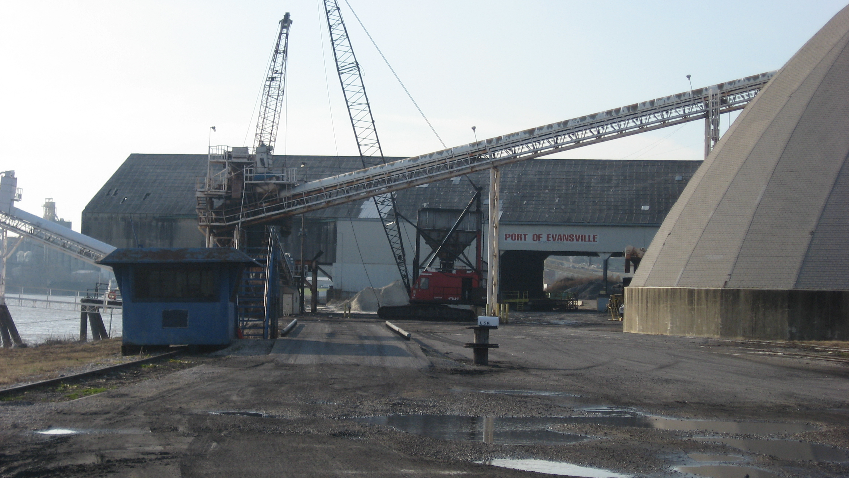 Distant view of the Mead Johnson River-Rail-Truck Terminal, located at 1830 W. Ohio Street in Evansville, Indiana, United States. Built in 1931, the complex is listed on the National Register of Historic Places.